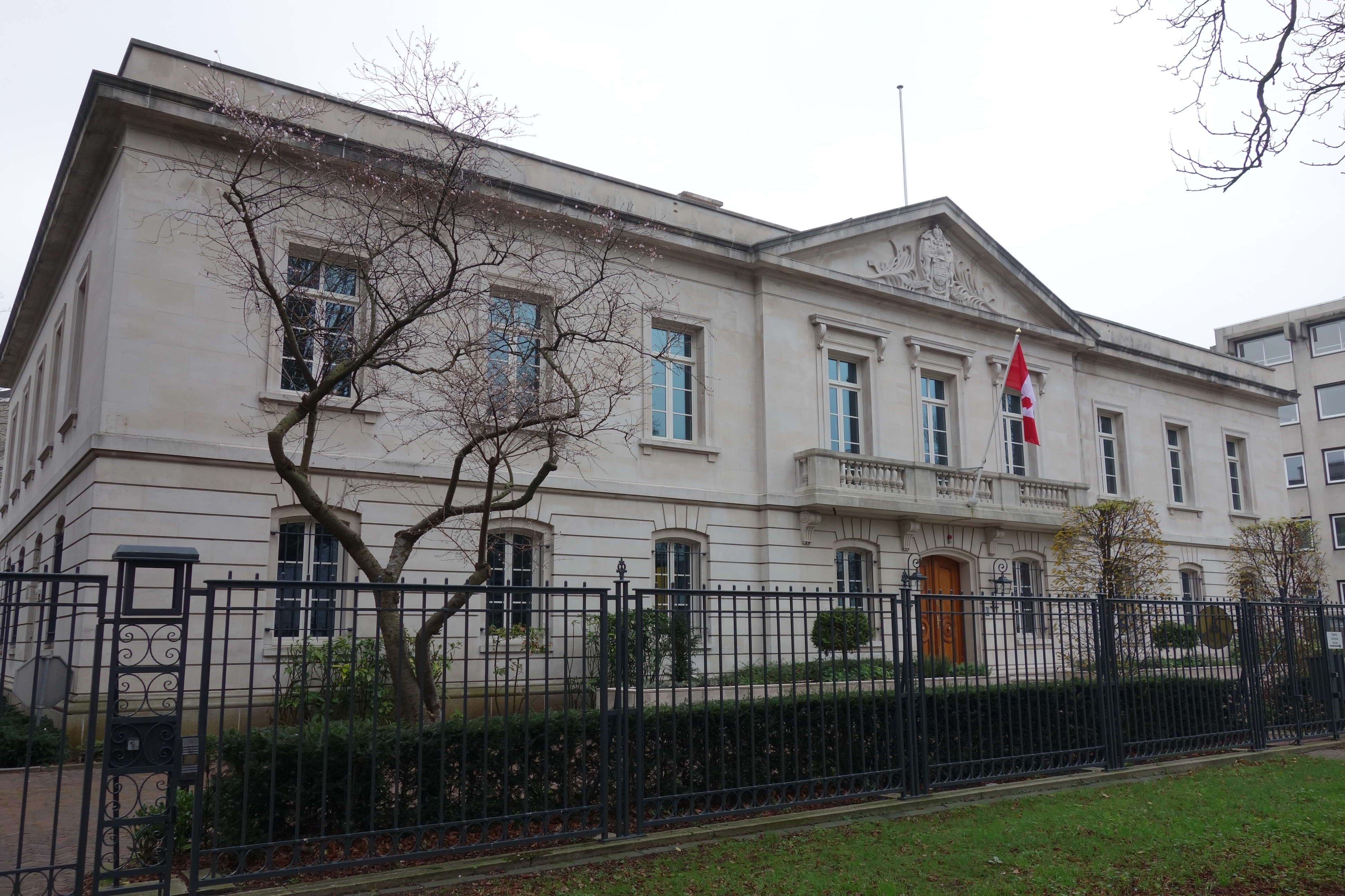 Embassie of Canada in The Hague